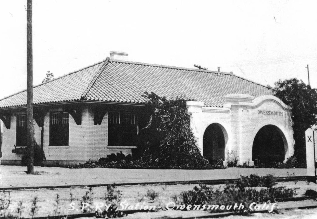 Owensmouth Southern Pacific Railroad Station — formerly located on 21355 Sherman Way at Canoga Avenue, in Canoga Park (formerly Owensmouth), western San Fernando Valley, Los Angeles. The station was built in 1912, in preparation of the 1913 founding of Owensmouth. It was one of the few Spanish Colonial-Mission Revival Style train stations in the Valley to survive into the late 20th century. It was declarded a Category:Los Angeles Historic-Cultural Monument on May 30, 1990. However, in 1995 it was severely damaged by a fire, and razed afterwards. Black and white photographic reproduction, 8 x 10 in. — CSUN San Fernando Valley History Digital Library collection.